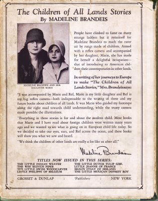 The author Madeline Brandeis (1897–1937) and her daughter Marie on the dust jacket of her book "The Little Swiss Wood Carver", published in 1929